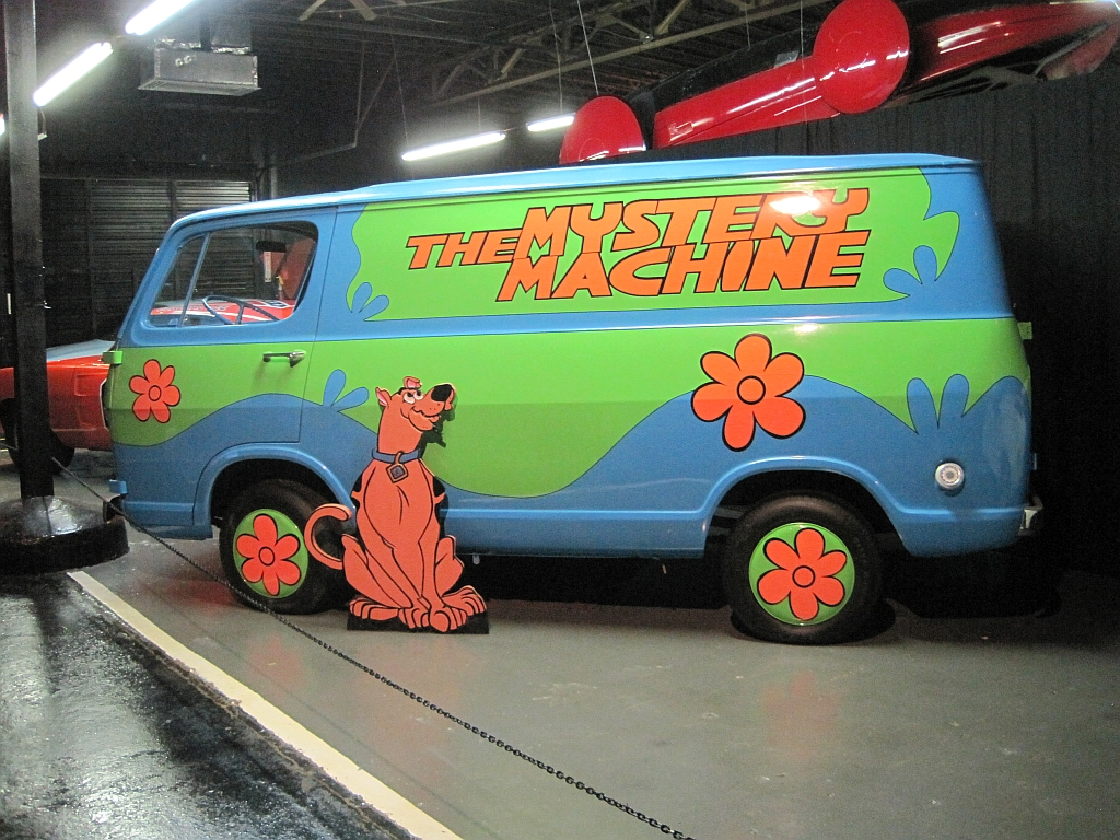 Rusty's TV & Movie Car Museum in Jackson, Tennessee.